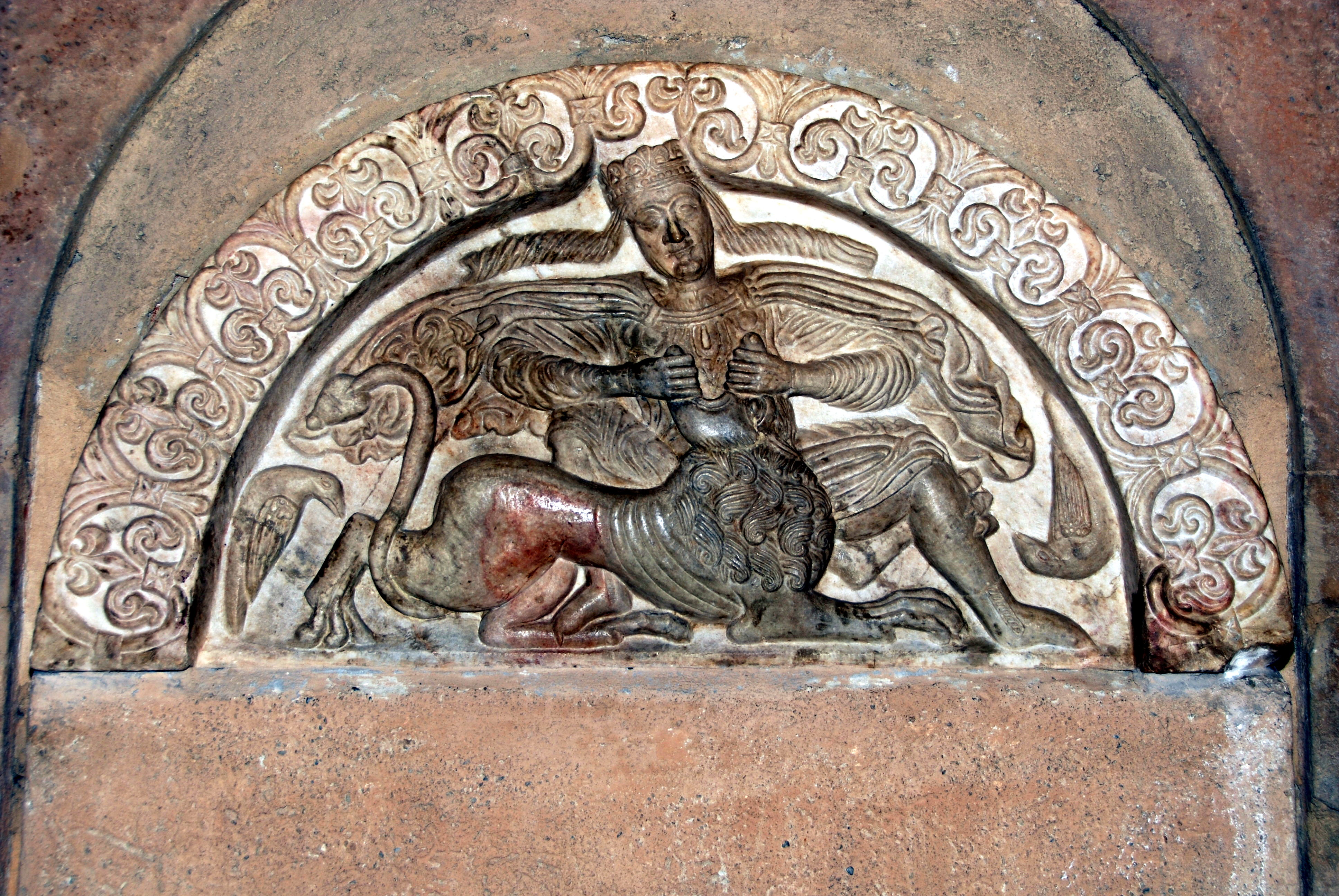 Samson tympanum inside the cathedral on Domplatz, market town Gurk, district Sankt Veit an der Glan, Carinthia, Austria, EU